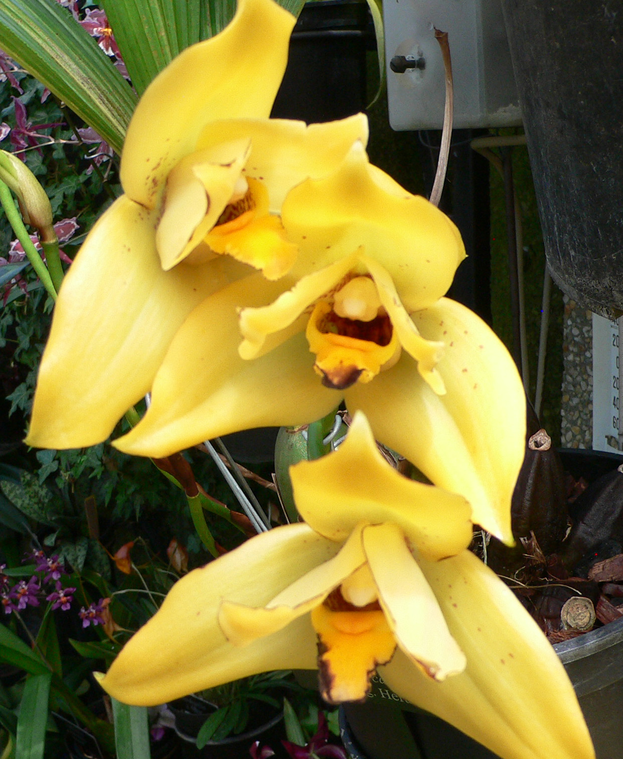 Pictures taken by myself at Longwood Gardens